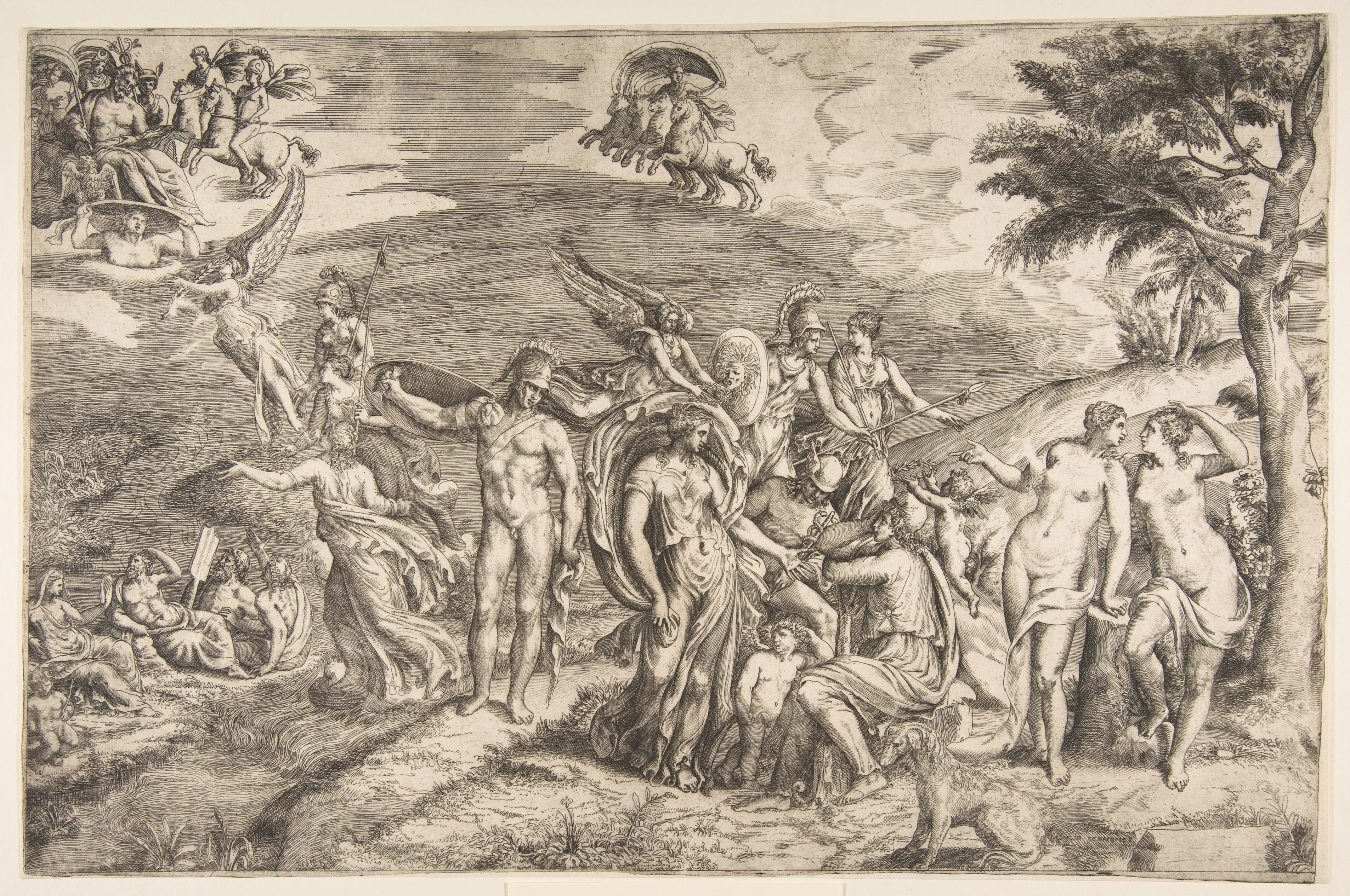 Print; Prints